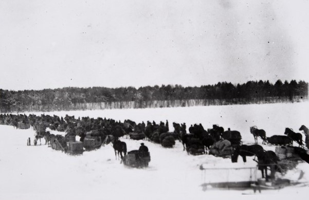 White Army convoy in Mäntyharju heading the Battle of Heinola.